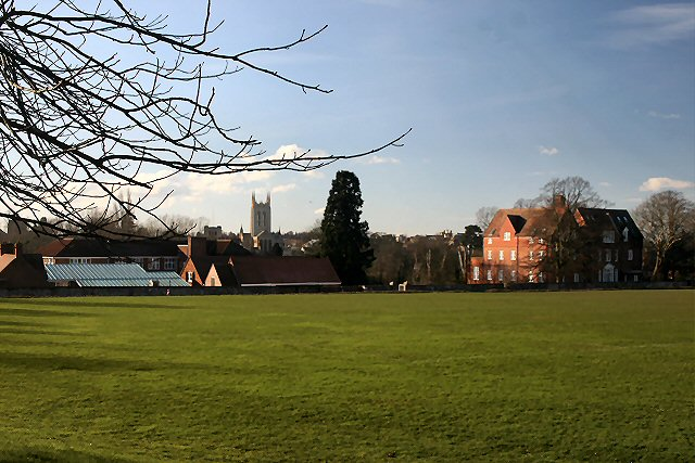 School and playing fields, Bury St Edmunds This view across the playing fields of St James Middle School (the large red building) includes the new tower of Bury St Edmunds cathedral.